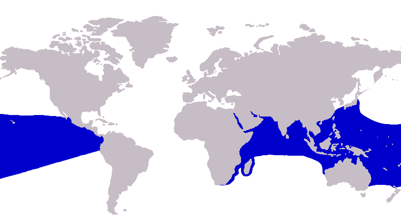 Base map from GDFL image